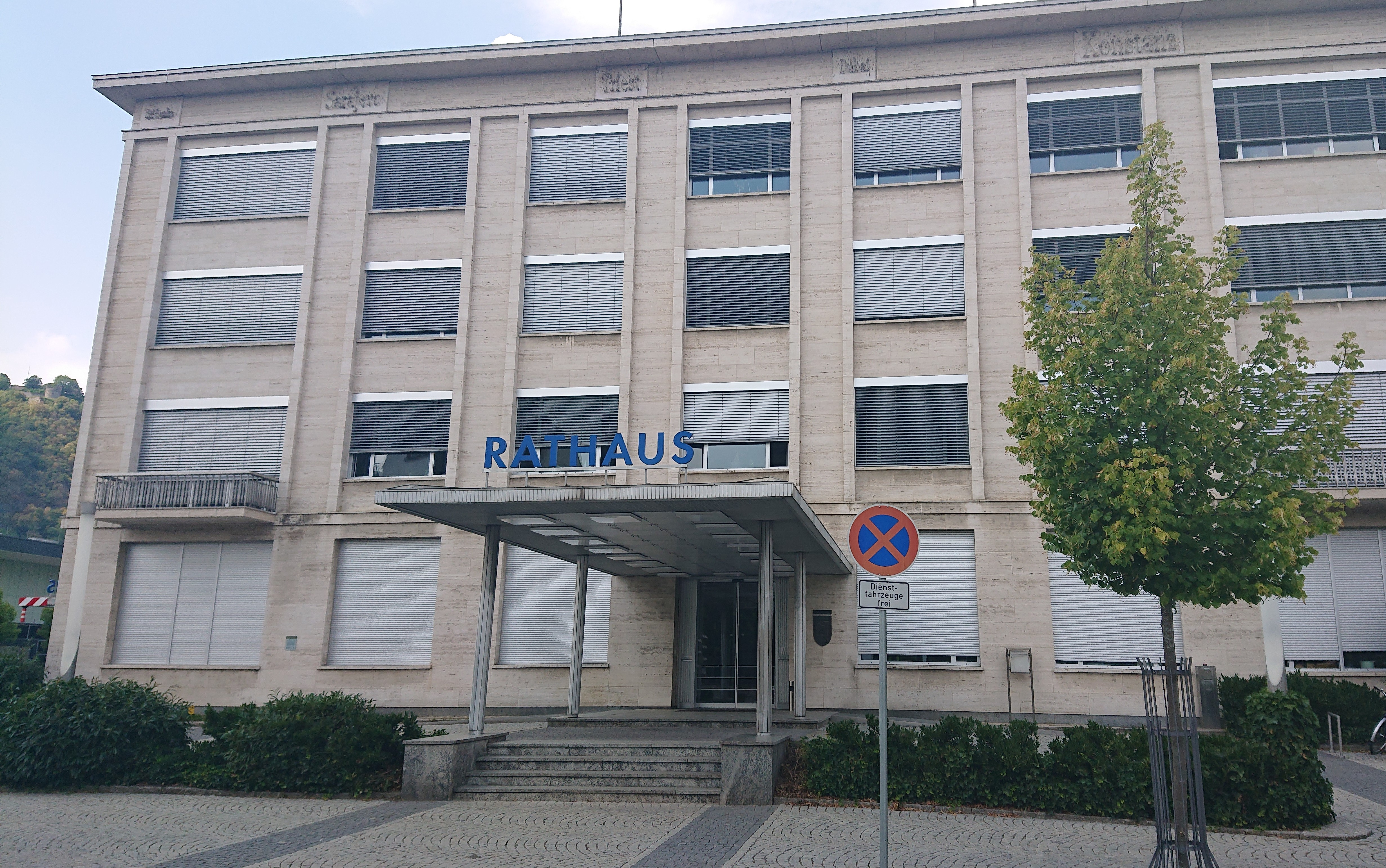 City hall of Singen, Germany.